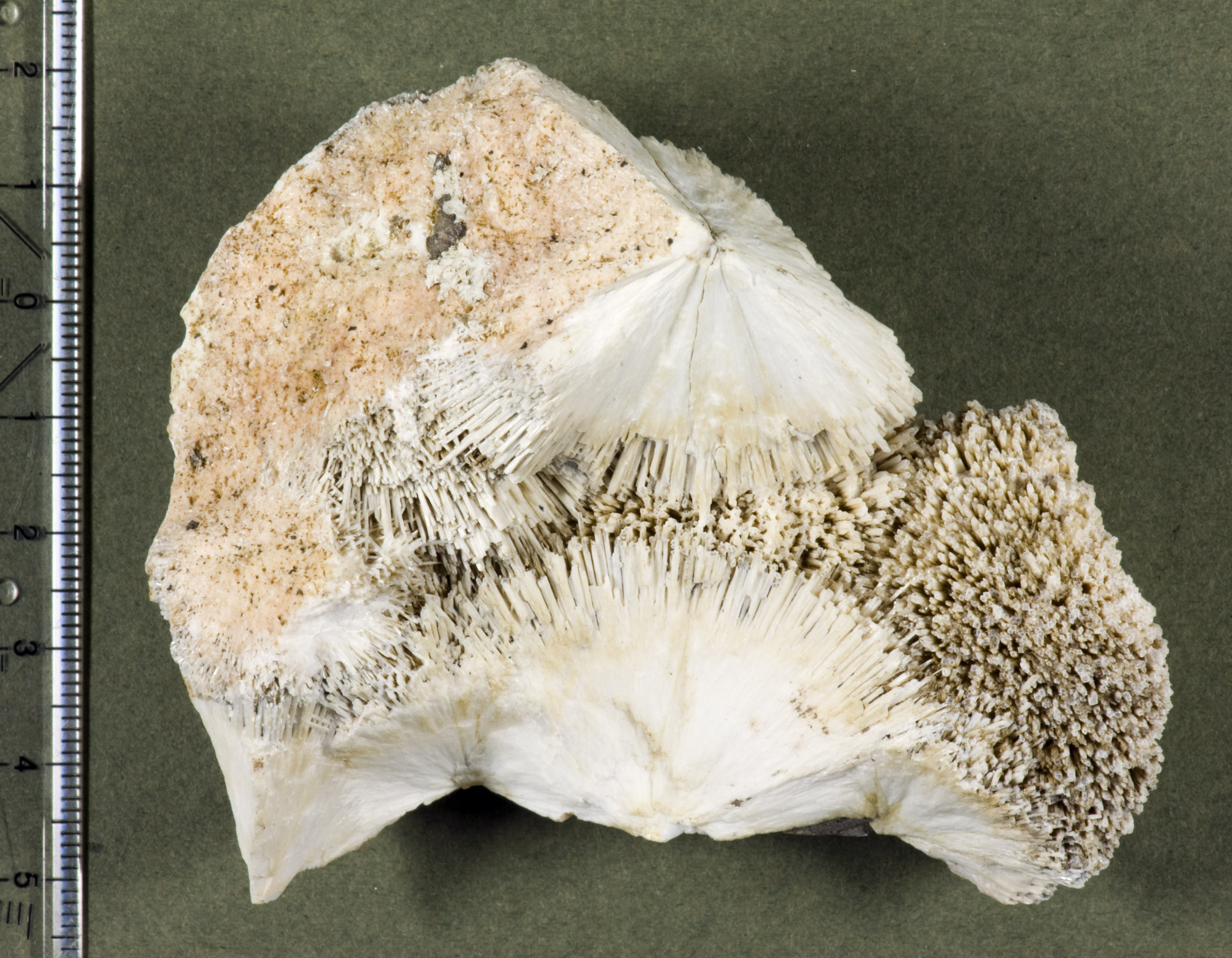 Zeolithe from Geikie Plateau, Scoresby Sund, Greenland